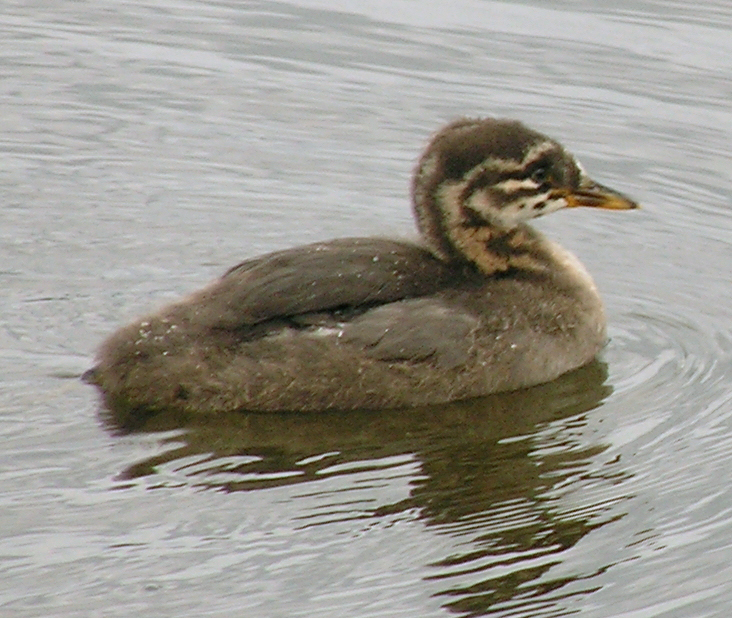 Red-necked Grebe (Podiceps grisegena). Chick at Westchester Lagoon in Anchorage, Alaska.